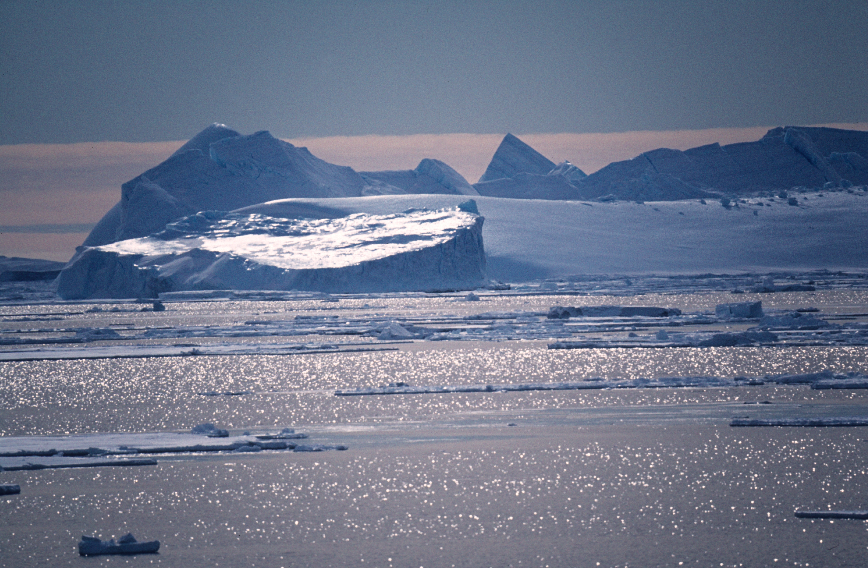 Iceberg and continent. Antarctica, near Davis Station.